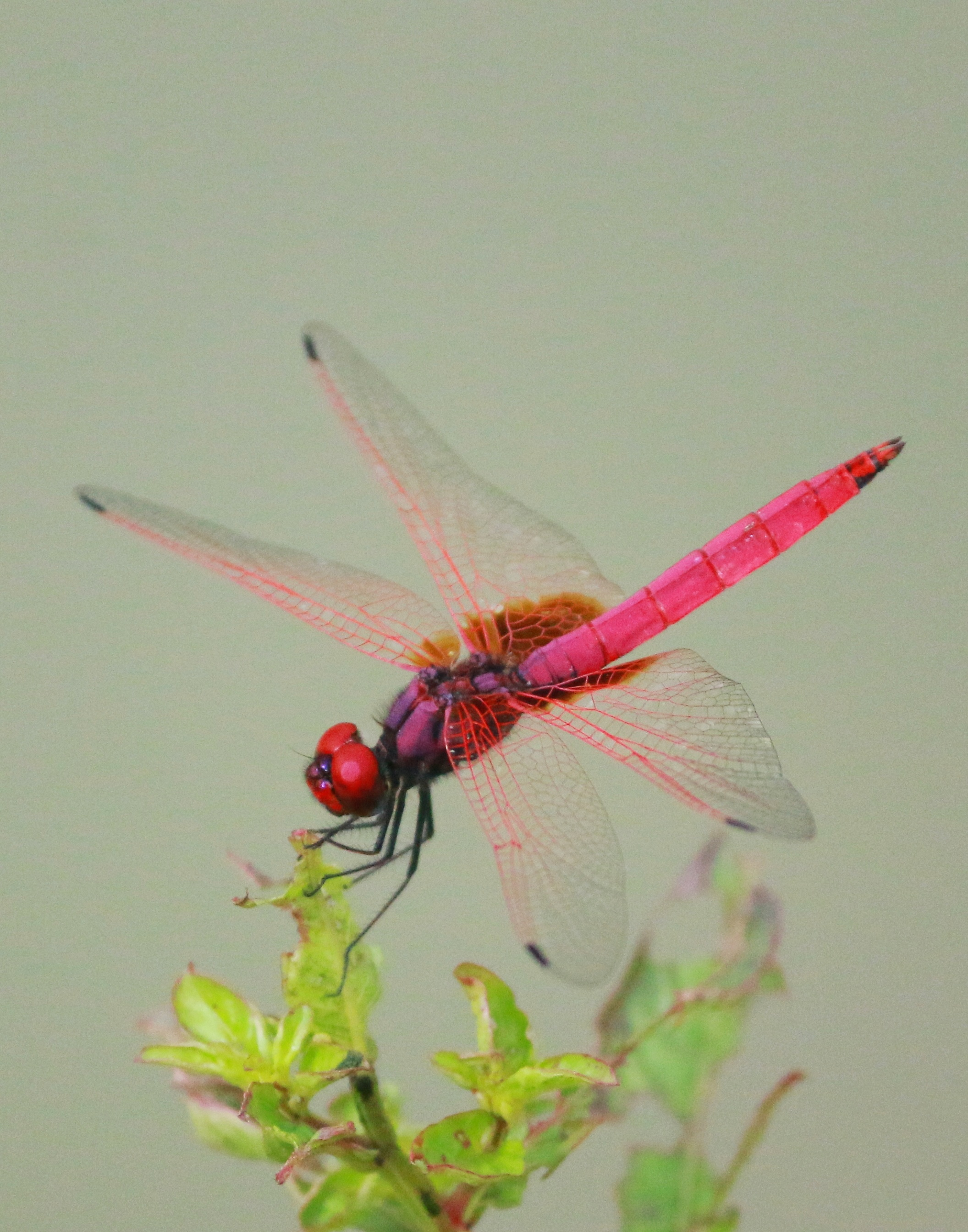 trithemis aurora,Crimson marsh glider